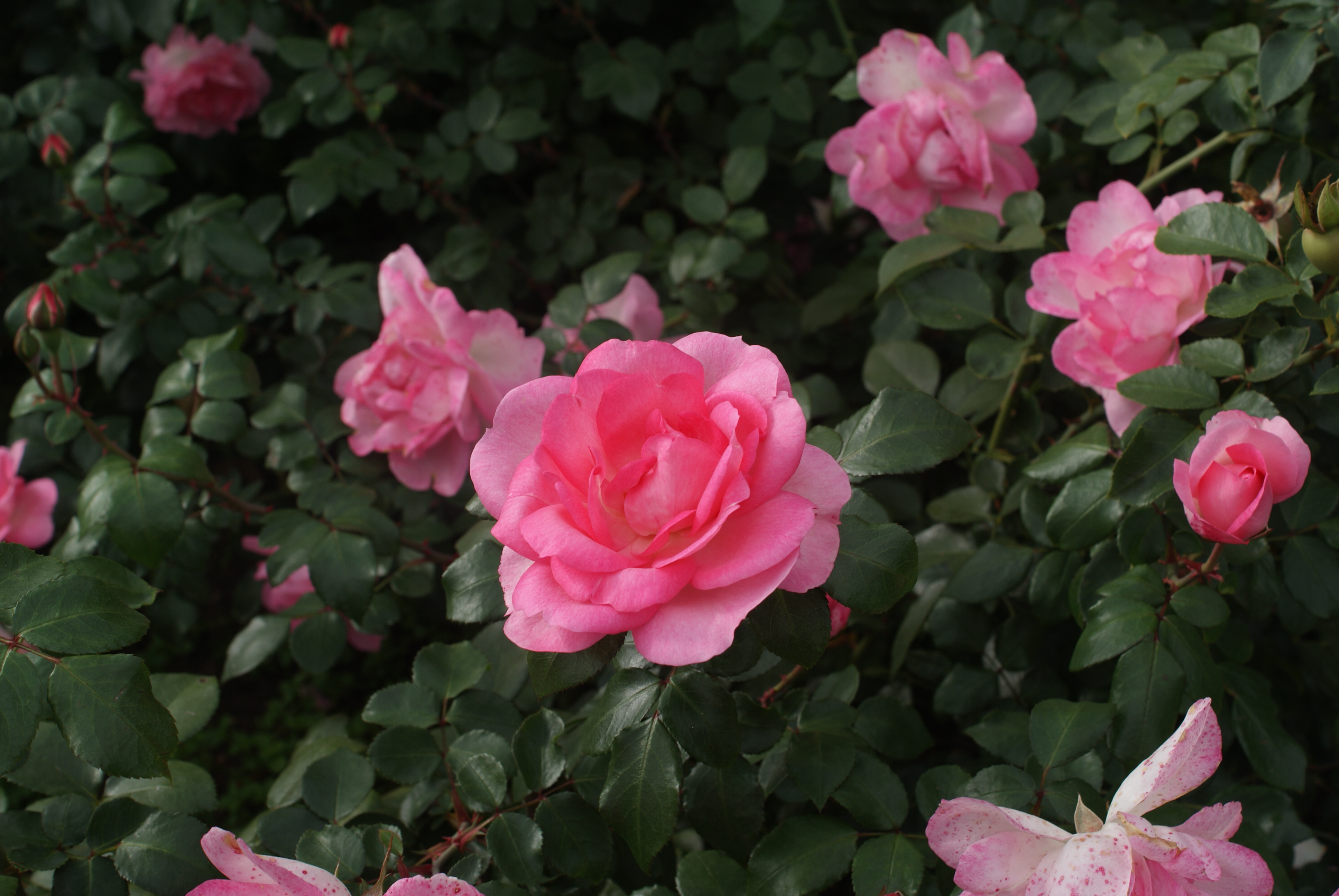 Rosa 'Centenaire de Lourdes' in the Botanical garden, Minsk